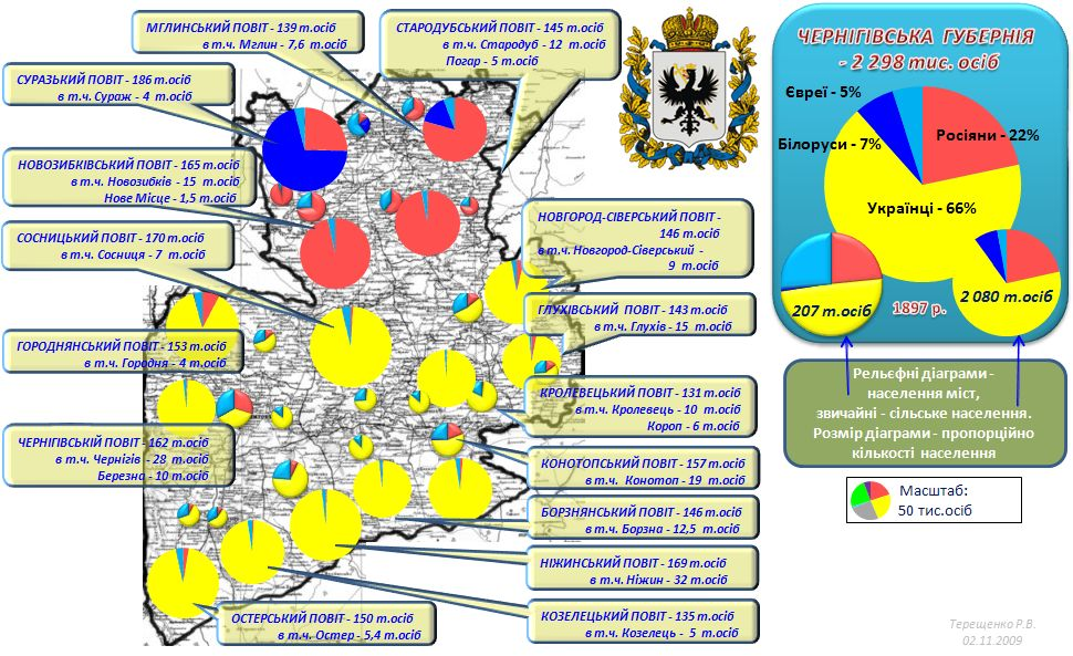 Ethnic groups Chernihiv province according to Census 1897